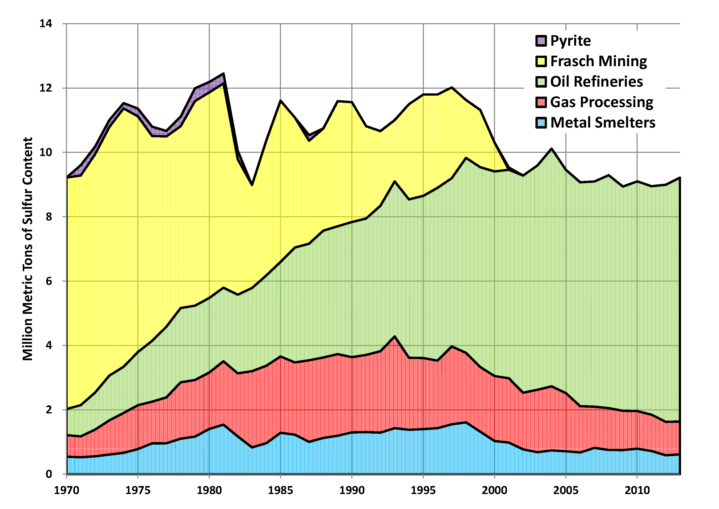 US sulfur production by source, 1970-2013 (data from USGS)